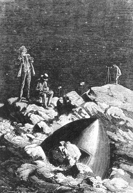 An illustration from Jules Verne's novel "Around the Moon" drawn by Émile-Antoine Bayard and Alphonse de Neuville.